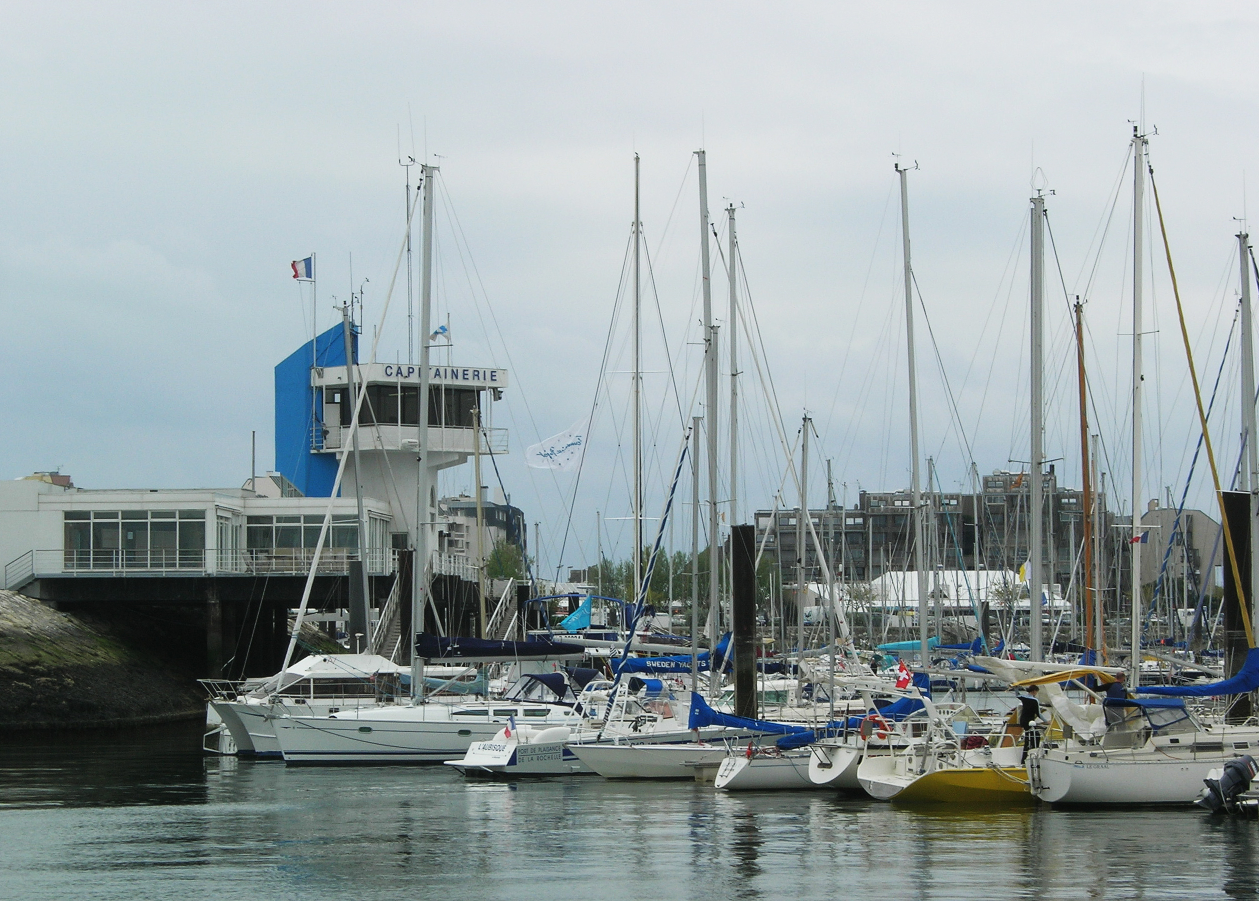 Description =Capitainerie des minimes Source =Photo taken by Remi Jouan Date =Mai 2006 Author =Remi Jouan